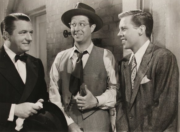 L. to R. : William Gaxton, Phil Silvers & Dick Haymes in Diamond Horseshoe - publicity still (cropped)